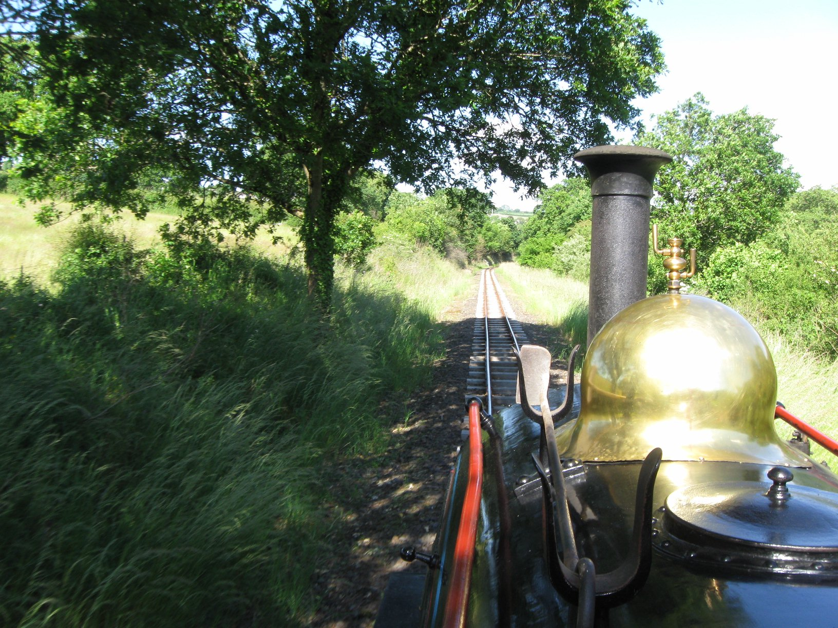 Launceston Steam Railway, viewed from locomotive Lilian